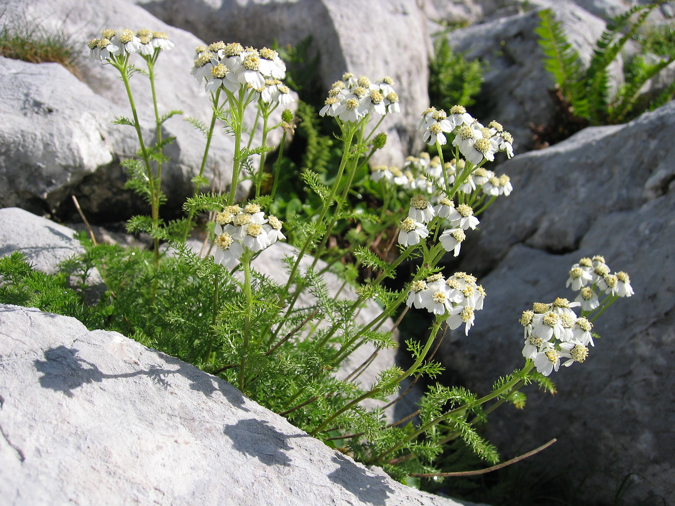 Achillea clusiana, Near Widerlechnerstein ~1900, Upper Austria, Austria